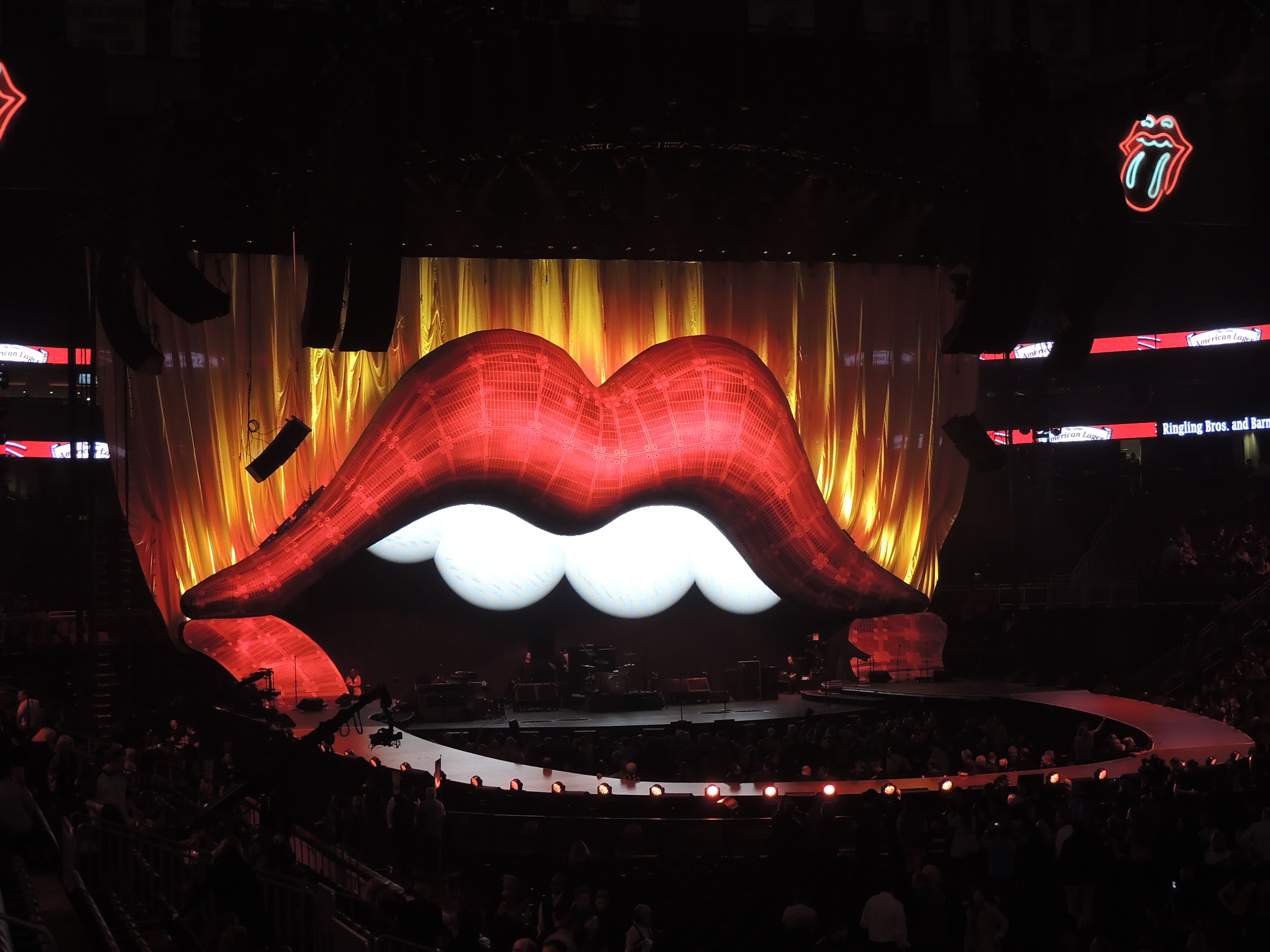 Set of The Rolling Stones, pre-show at Prudential Center on 2012-12-13